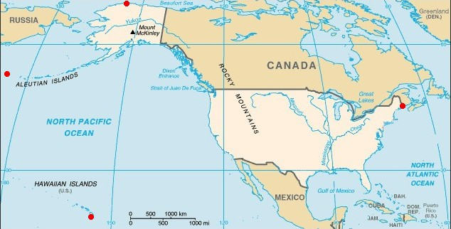 CIA World Factbook map of the United States -- dots added to show points.